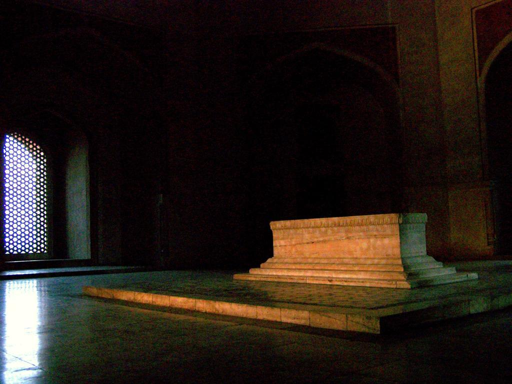 Nasiruddin Humayun (Persian: نصيرالدين همايون) (March 6, 1508 – February 22, 1556), was the second Mughal Emperor who ruled Afghanistan, Pakistan,and the northern parts of India from 1530–1540 and again from 1555–1556. Like his father, Babur, he lost his kingdom early, but with Persian aid, he eventually regained an even larger one. He succeeded his father in India in 1530, while his half-brother Kamran Mirza, who was to become a rather bitter rival, obtained the sovereignty of Kabul and Lahore, the more northern parts of their fathers empire. He originally ascended the throne at the age of 22 and was somewhat inexperienced when he came to power. Humayun lost his Indian territories to the Afghan Sultan, Sher Shah, and only regained them with Persian aid ten years later. Humayun's return from Persia, accompanied by a large retinue of Persian noblemen, signalled an important change in Mughal Court culture, as the Central Asian origins of the dynasty were largely overshadowed by Persian art, architecture, language and literature. Subsequently, in a very short time thereafter, Humayun was able to expand the Empire further, leaving a substantial legacy for his son, Akbar the Great.